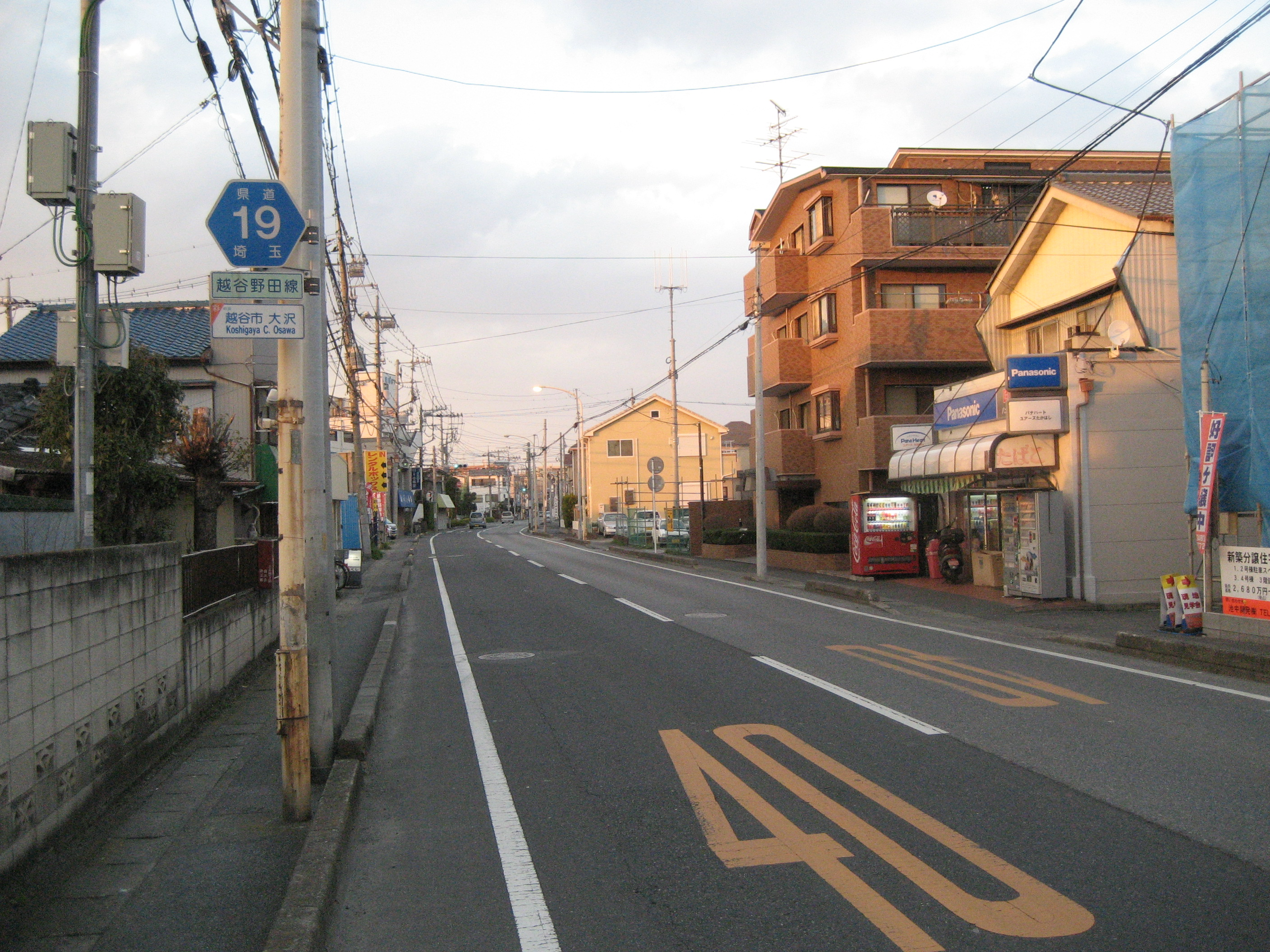 The Saitama Prefectural Road Route 19 in Koshigaya City